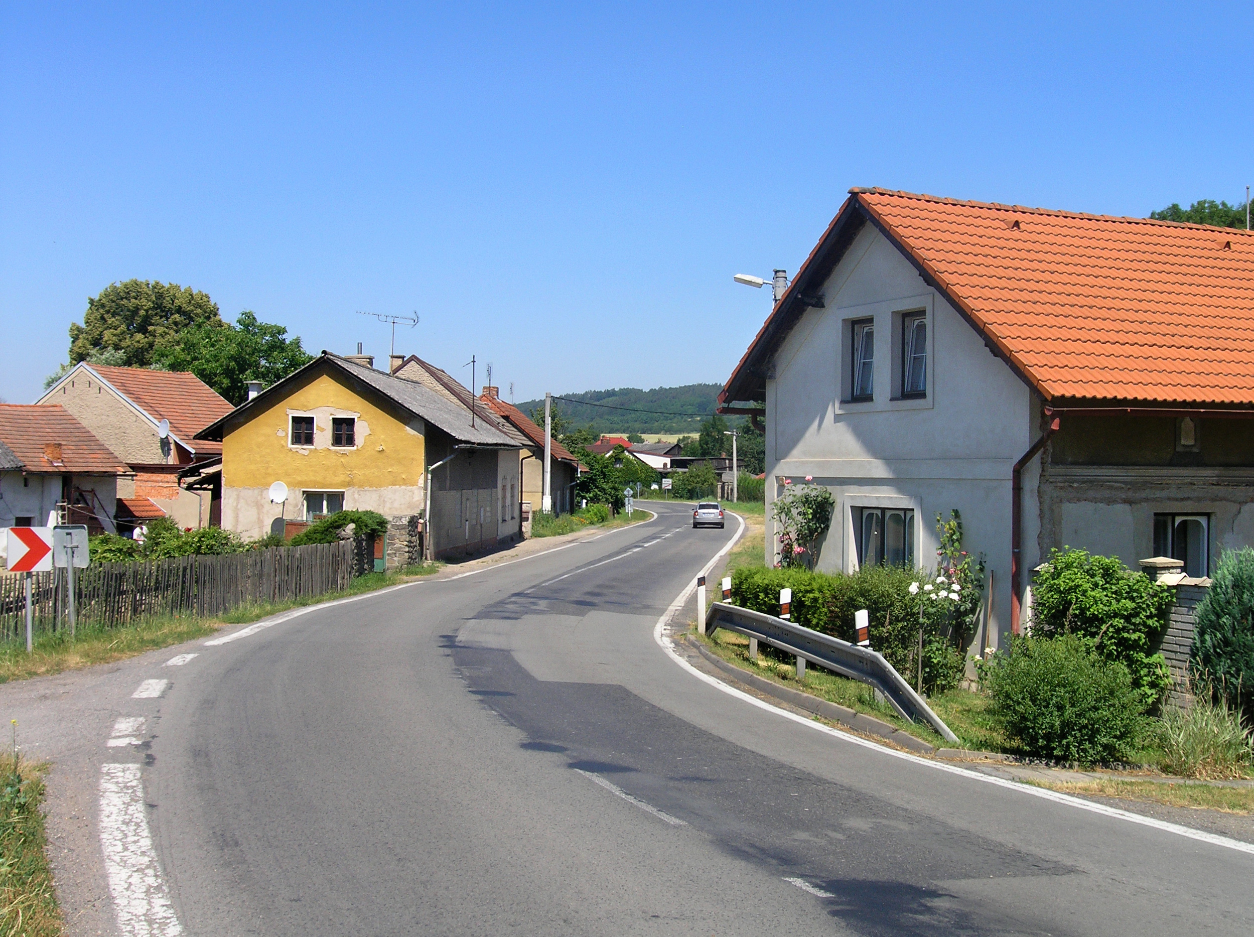 Road to Mnichovo Hradiště in Žantov, part of Kněžmost, Czech Republic